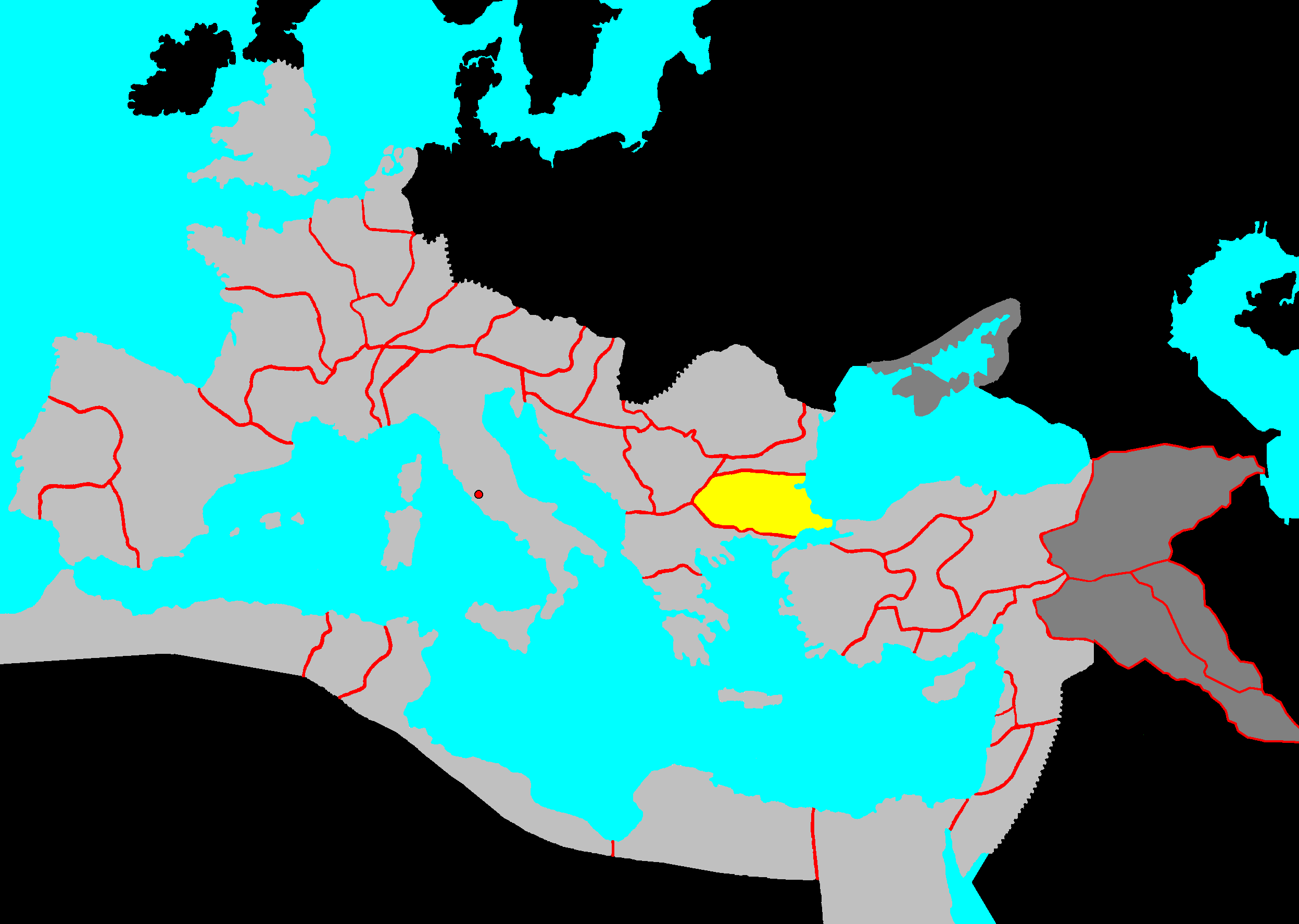 Description: provinces of the Roman Empire (Imperium Romanum) Source: own work Date: December 2005 Author: --Immanuel Giel 12:58, 13 December 2005 (UTC) Other versions: none